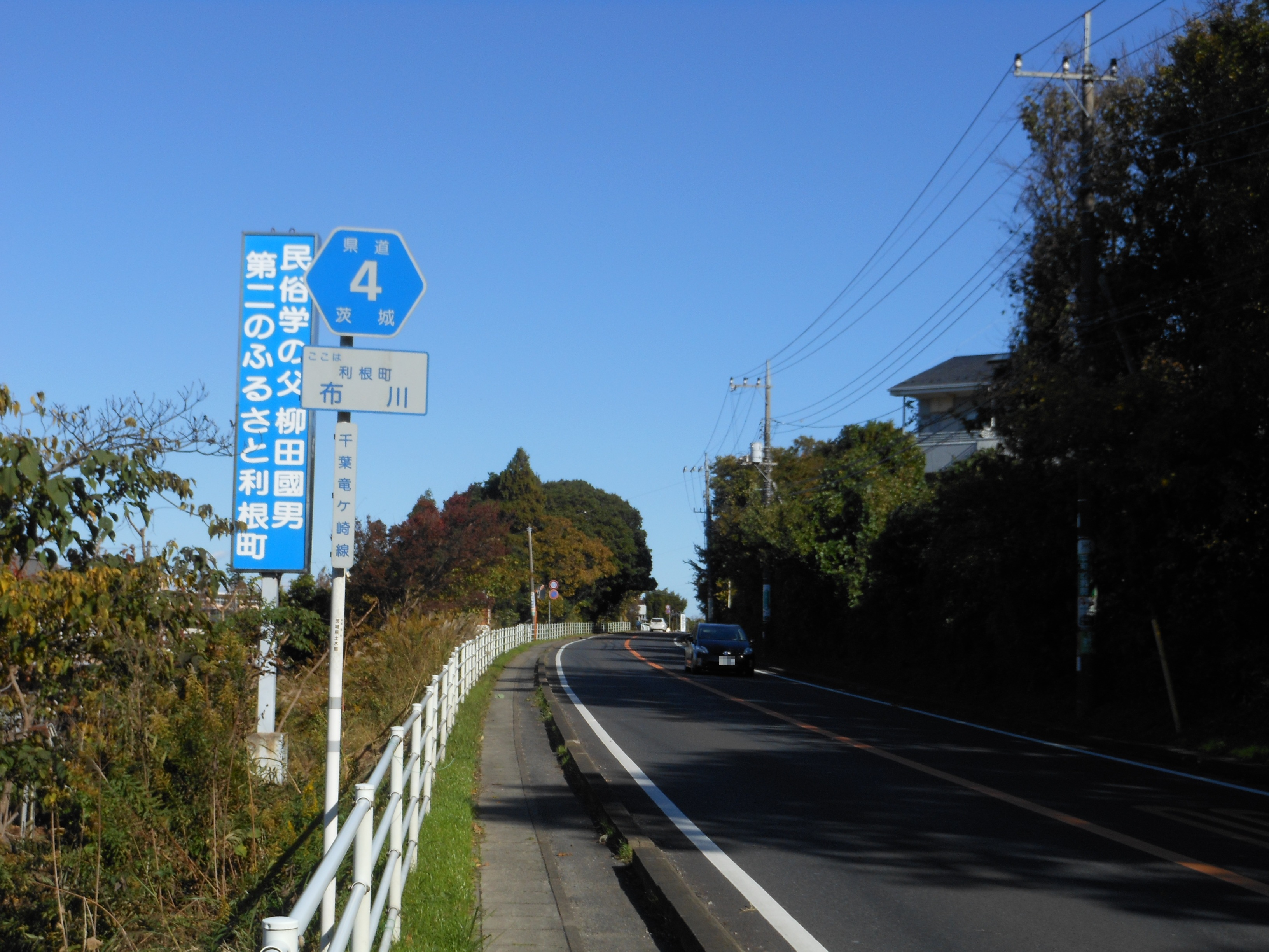 The Ibaraki Prefectural Road Route 4 in Fukawa, Tone Town